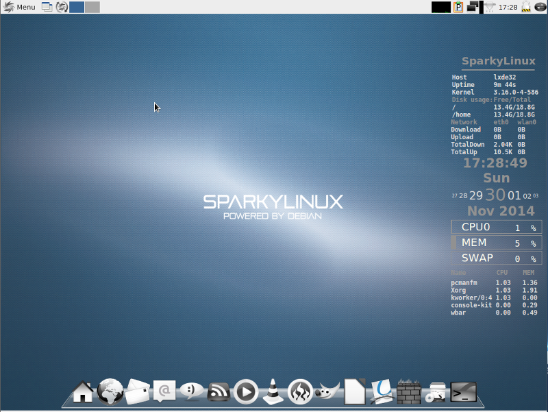 SparkyLinux 3.6 LXDE desktop